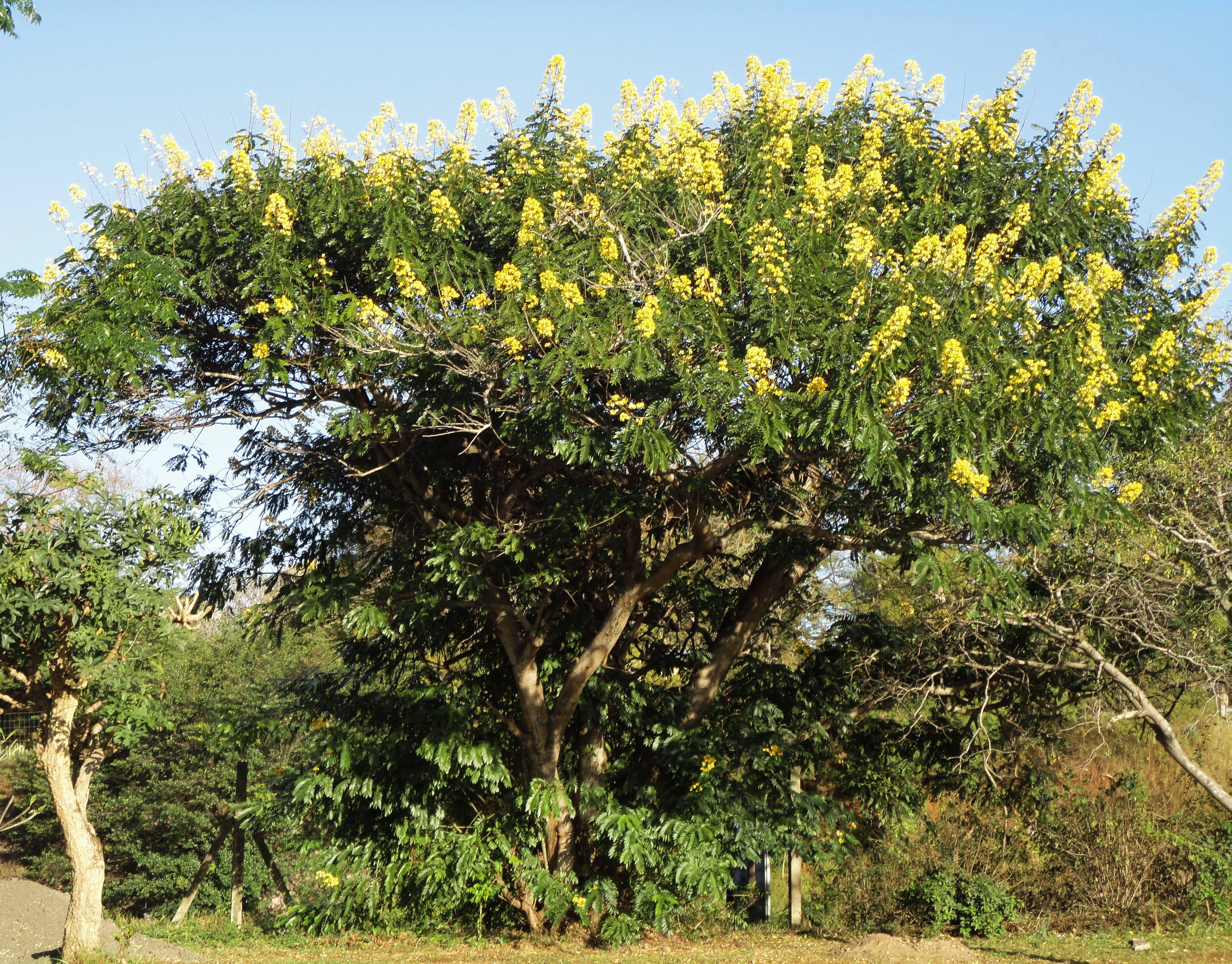 Habit of a Monkey pod in Kloof, KwaZulu-Natal